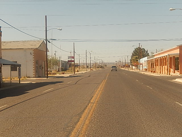 I took photo of McCamey, TX, with Nikon camera.